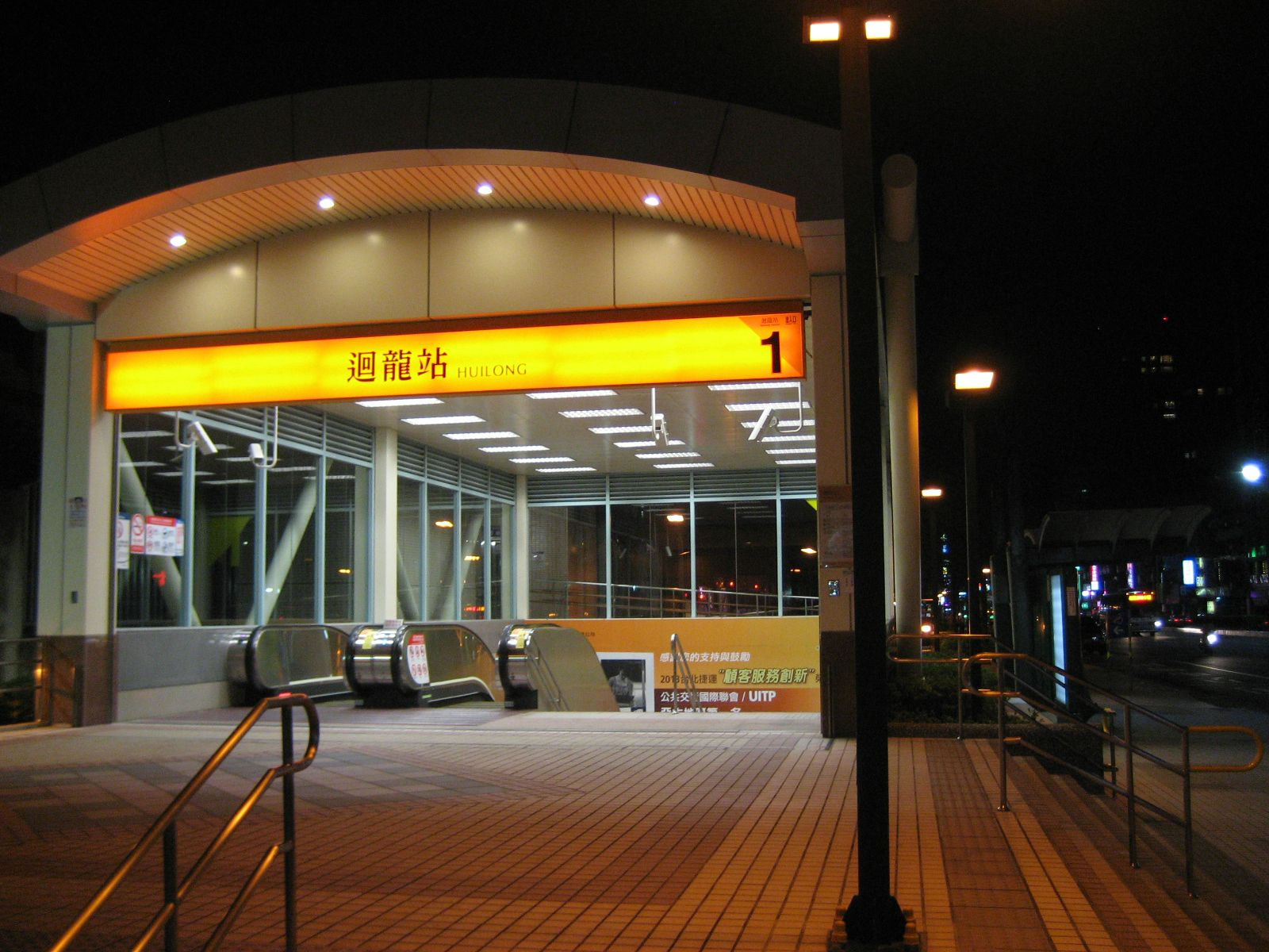 Huilong Station Exit1 at night